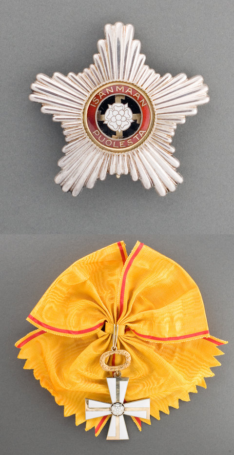 Grand cross of the Cross of Liberty, Finland (VR SR)